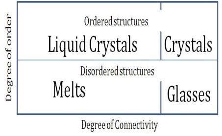 States of crystalline and amorphous materials as a function of connectivity